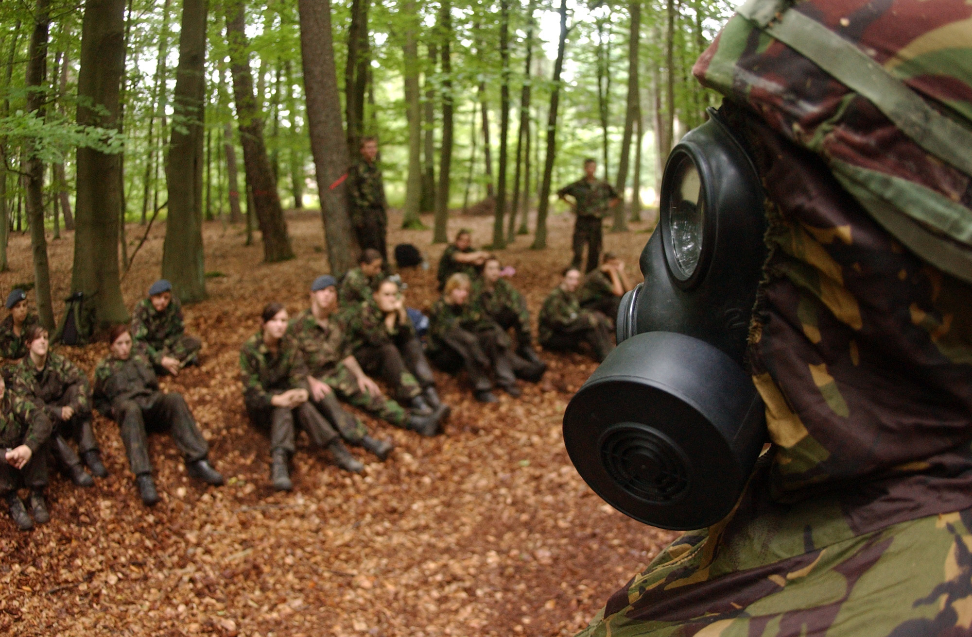 (right) Flight Sergeant Daryl Newland, Royal Air Force Cadet, wears the chemical warfare gear to demonstrate for the cadets on warrior day at the 38th Construction and Training Squadron, Ramstein Air Base (RAB), Germany, August 10, 2006. The cadets are staying at RAB for a week long camp. (U.S. Air Force photo by Airman Amber Sorsek-Bressler)(RELEASED)